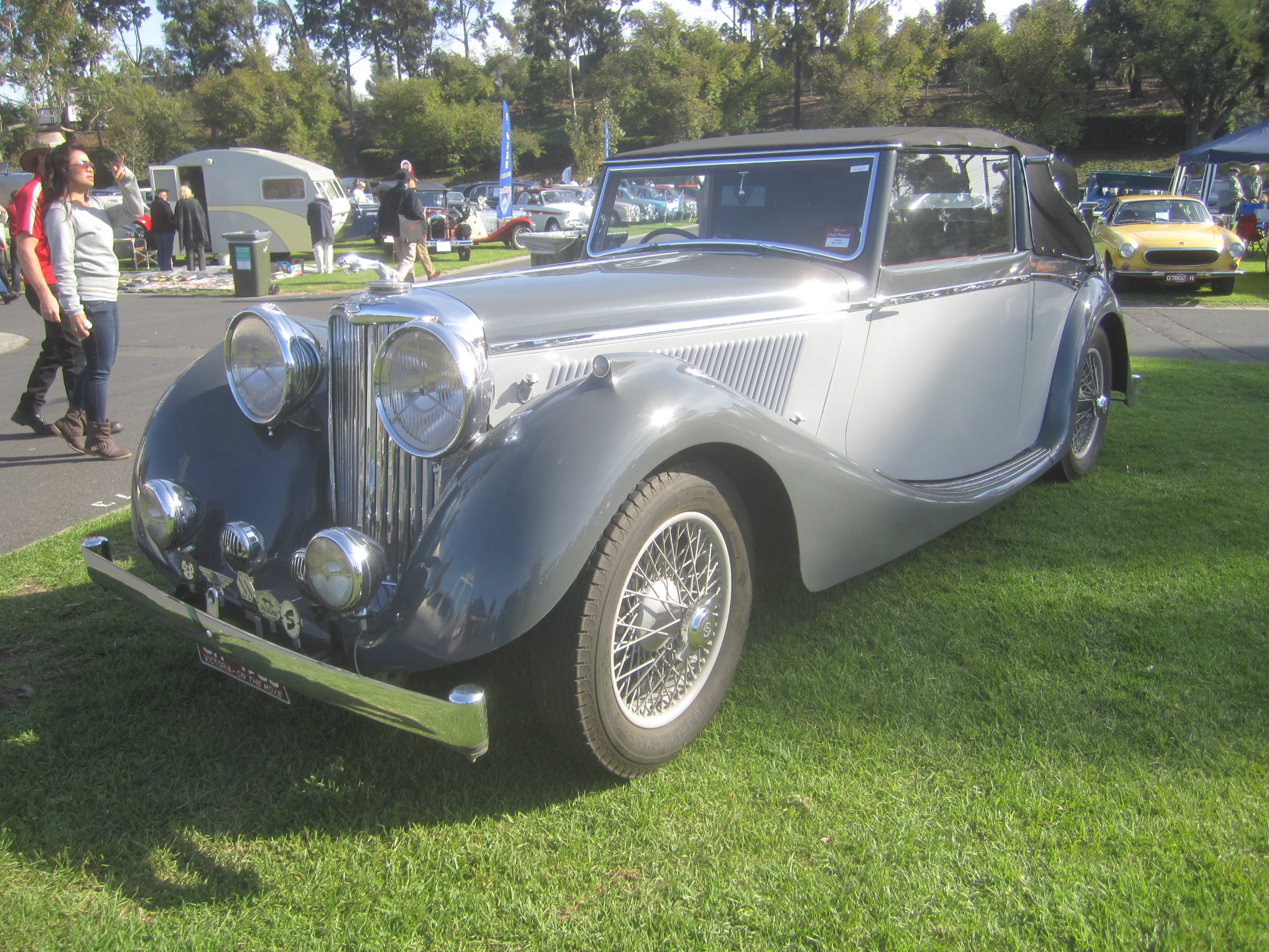 1940 S. S. Jaguar drophead coupé. Flemington, Melbourne, Victoria